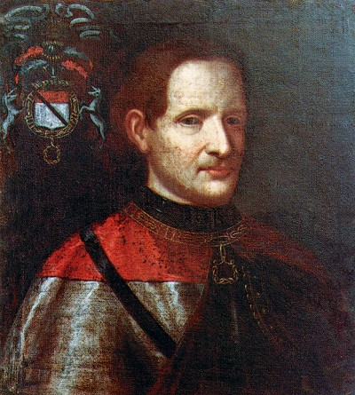 Portrait of Ibleto of Challant